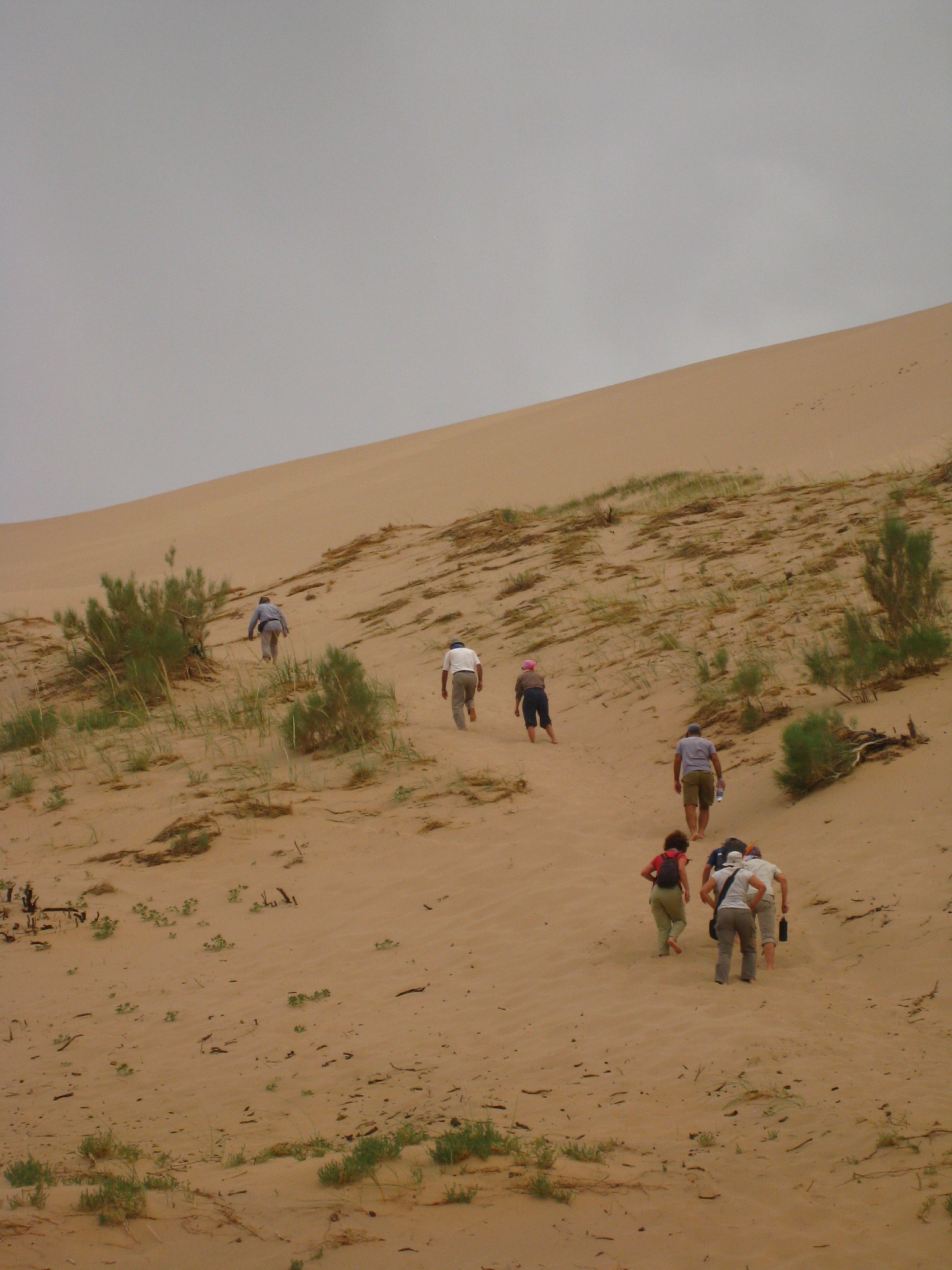 Sand dunes in south Mongolia